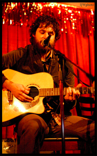 This is a photograph of David Jensen performing as Art for Starters on January 30, 2009. It was taken at the Ruby Room in downtown Phoenix.